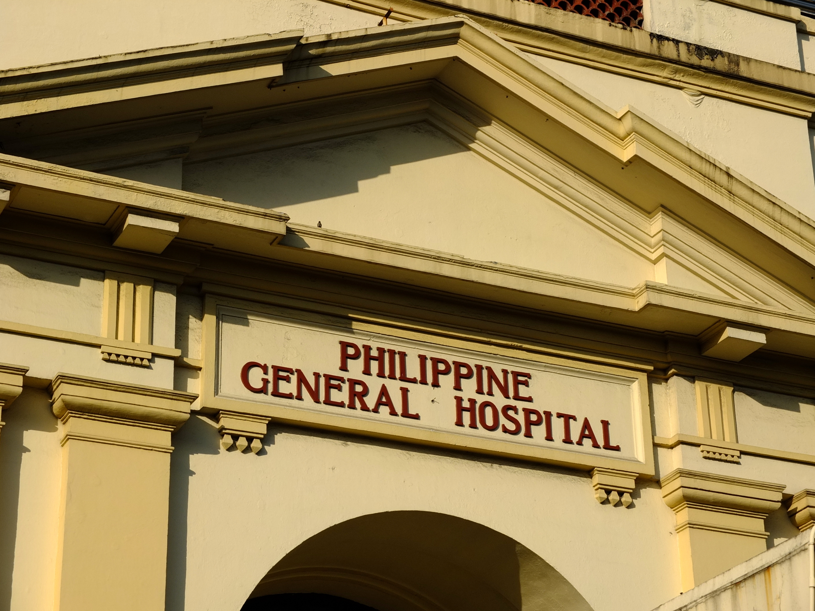 Pediment detail of PGH Administration Building